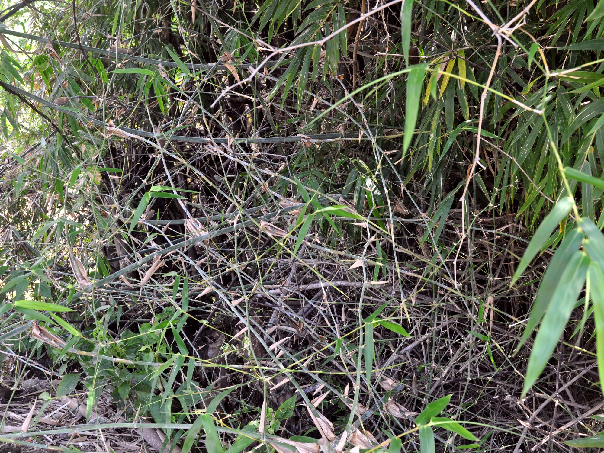 Thorny bamboo, Bambusa blumeana; spiny thickets. From Ponorogo, East Java, Indonesia.